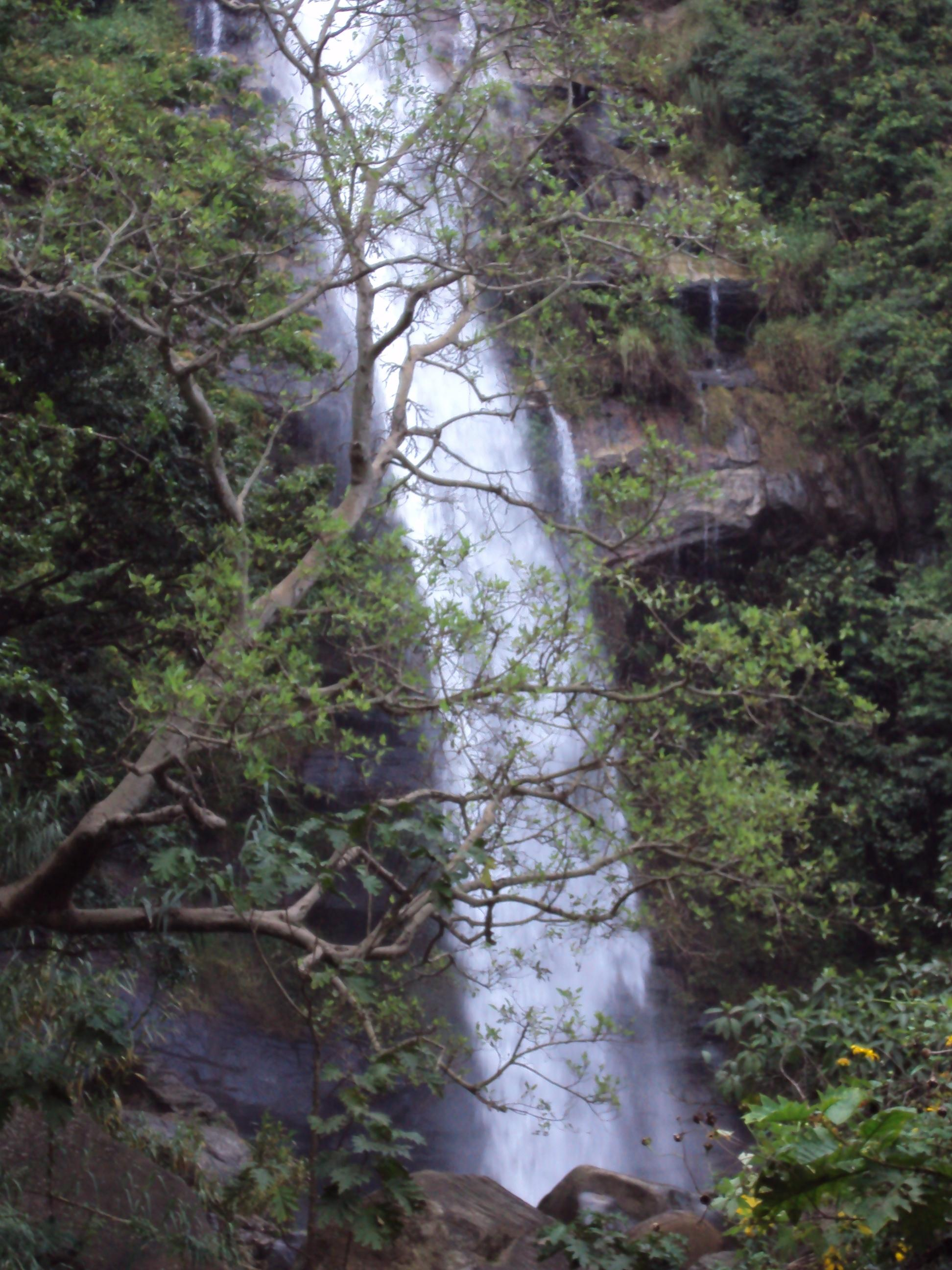 Waterfall of Sri Lanka placed in Badulla district